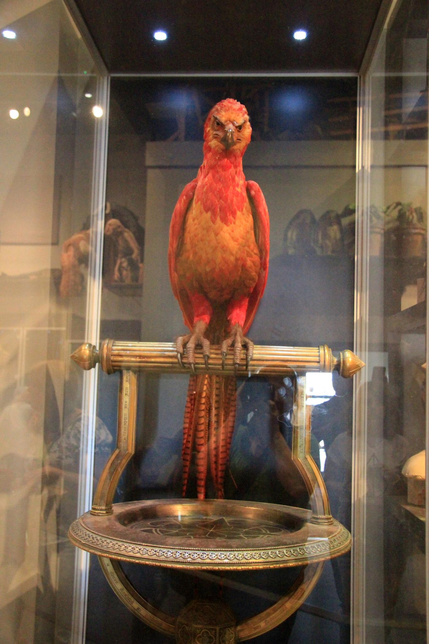 Warner Bros. Studio Tour London: The Making of Harry Potter.